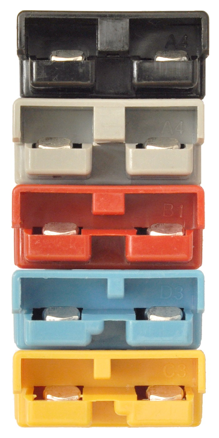 Different coloured plugs in the Anderson SB50 series, illustrating the different keying that allows only like-coloured connectors to mate. Note the black and grey connectors are keyed identically allowing them to interconnect, unlike all the other colours.